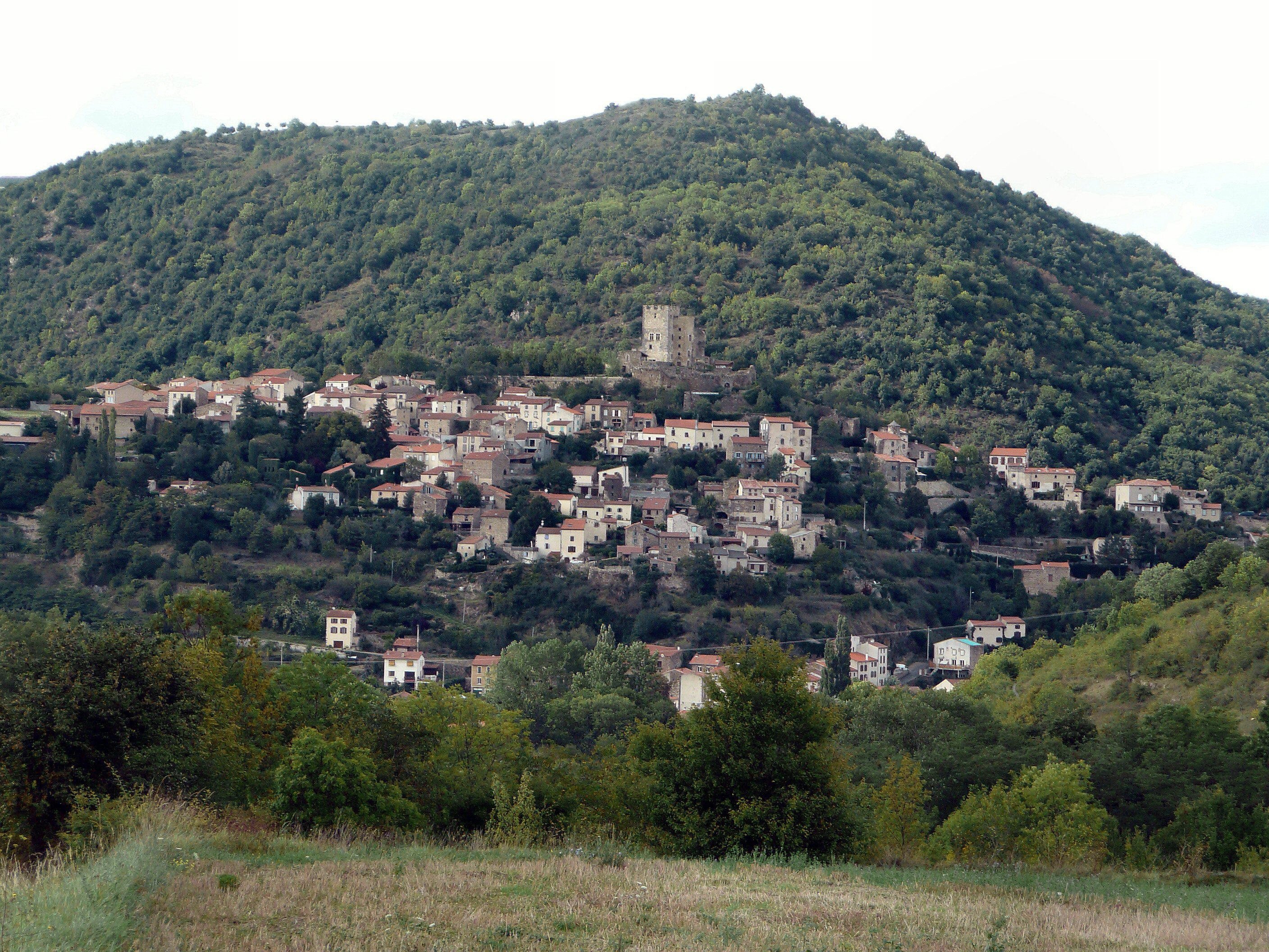 View of village of Montaigut-le-Blanc (Puy-de-Dôme, France)